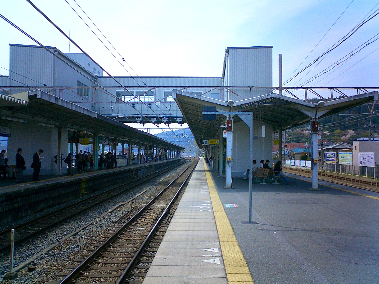 West Japan Railway Tōkaidō Main Line（Biwako Line）& Kosei Line Yamashina Station Platform 西日本旅客鉄道 東海道本線（琵琶湖線）& 湖西線 山科駅 駅ホーム